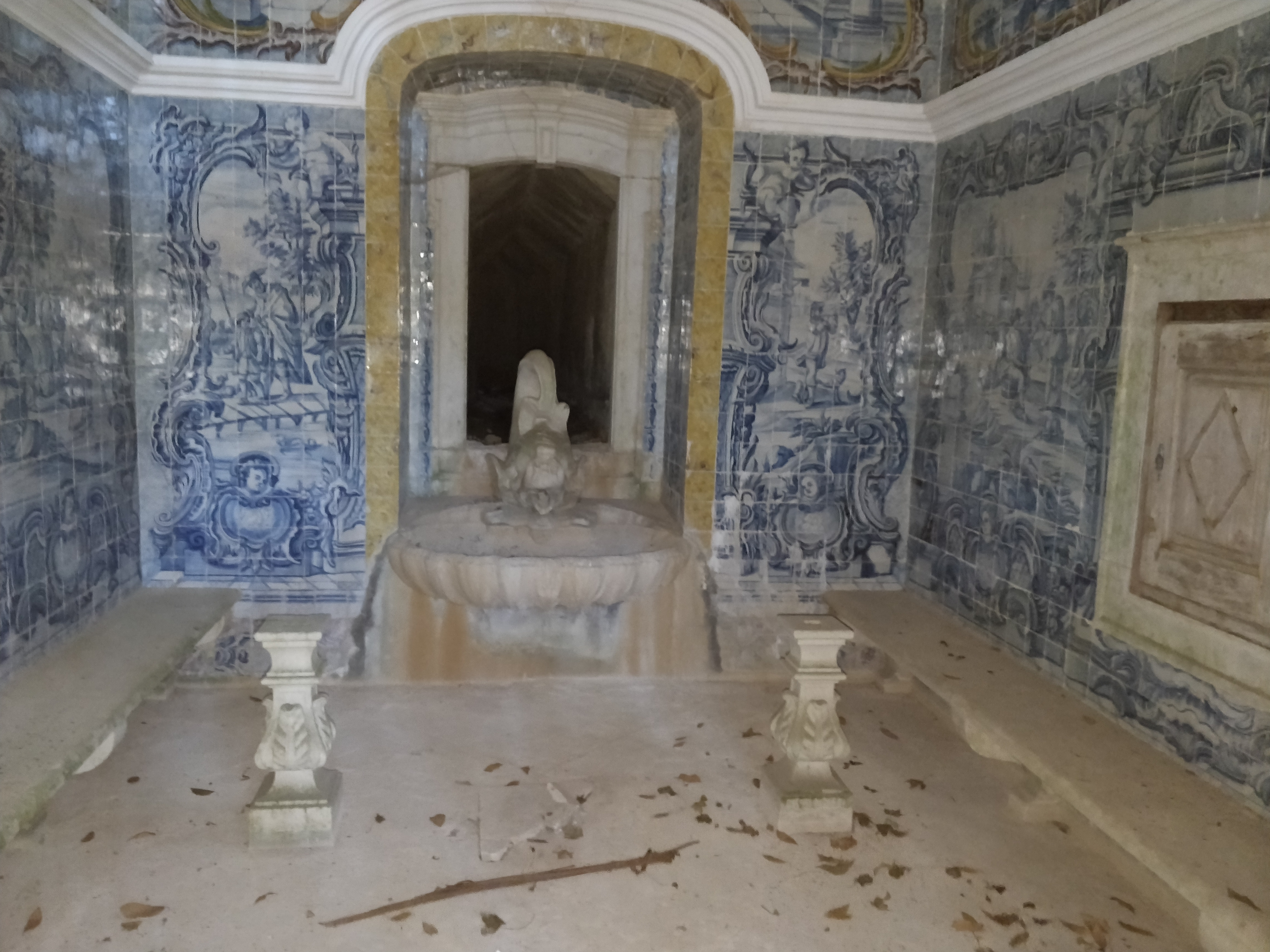 View of the Chapel situated in the woods of Quinta da Ribafria, showing the use of Azulejo tiles